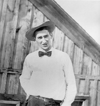 U.S. Senator William A. Blakley (D-TX)